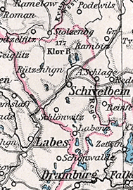 Detail from a map of Pomerania.